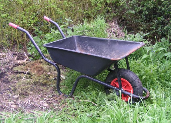 Wheelbarrow. Photo by sannse.